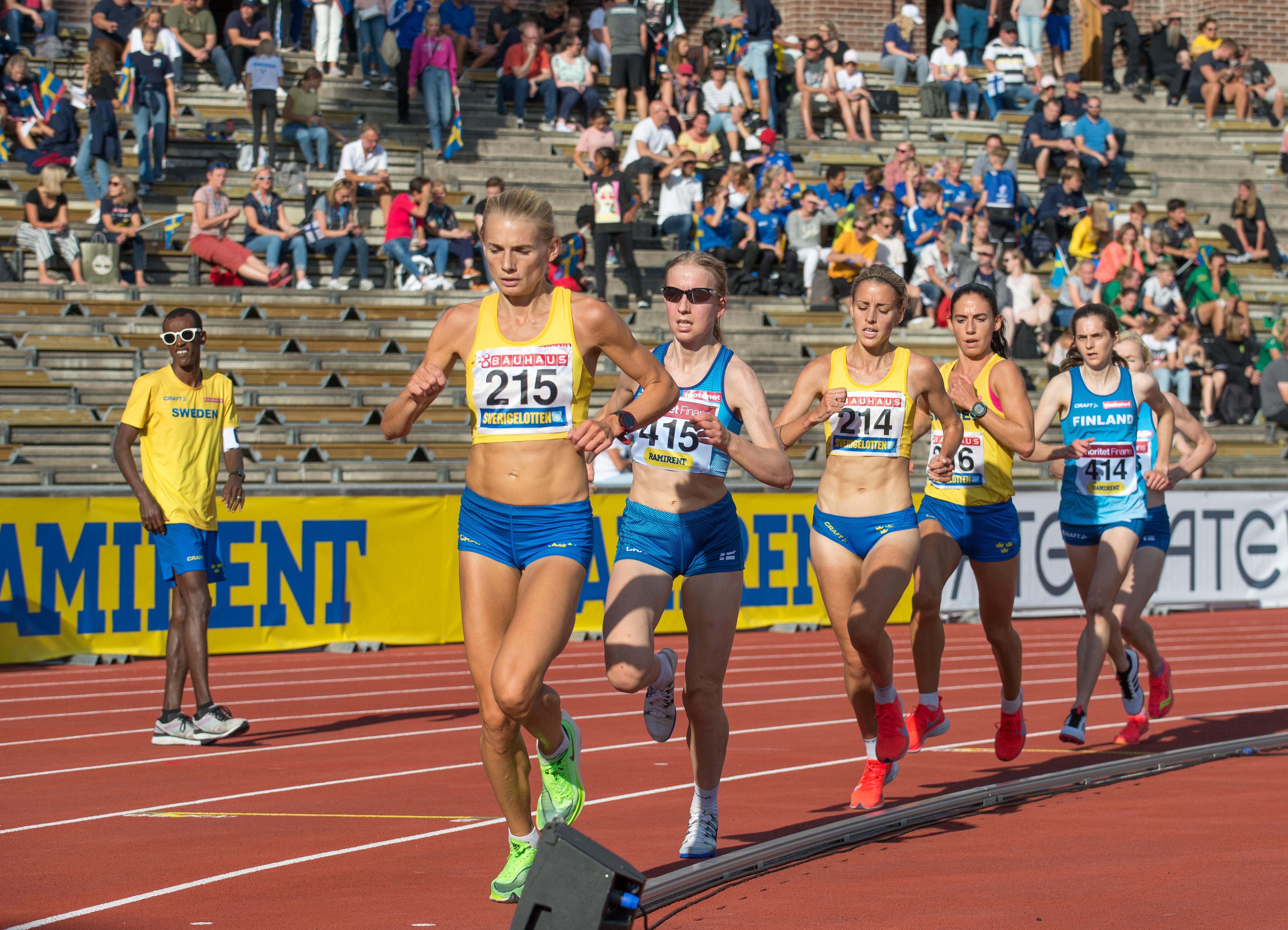 Women's 10,000 metres during the Finland-Sweden athletics international 2019 at the Stockholm Stadium in August 2019.